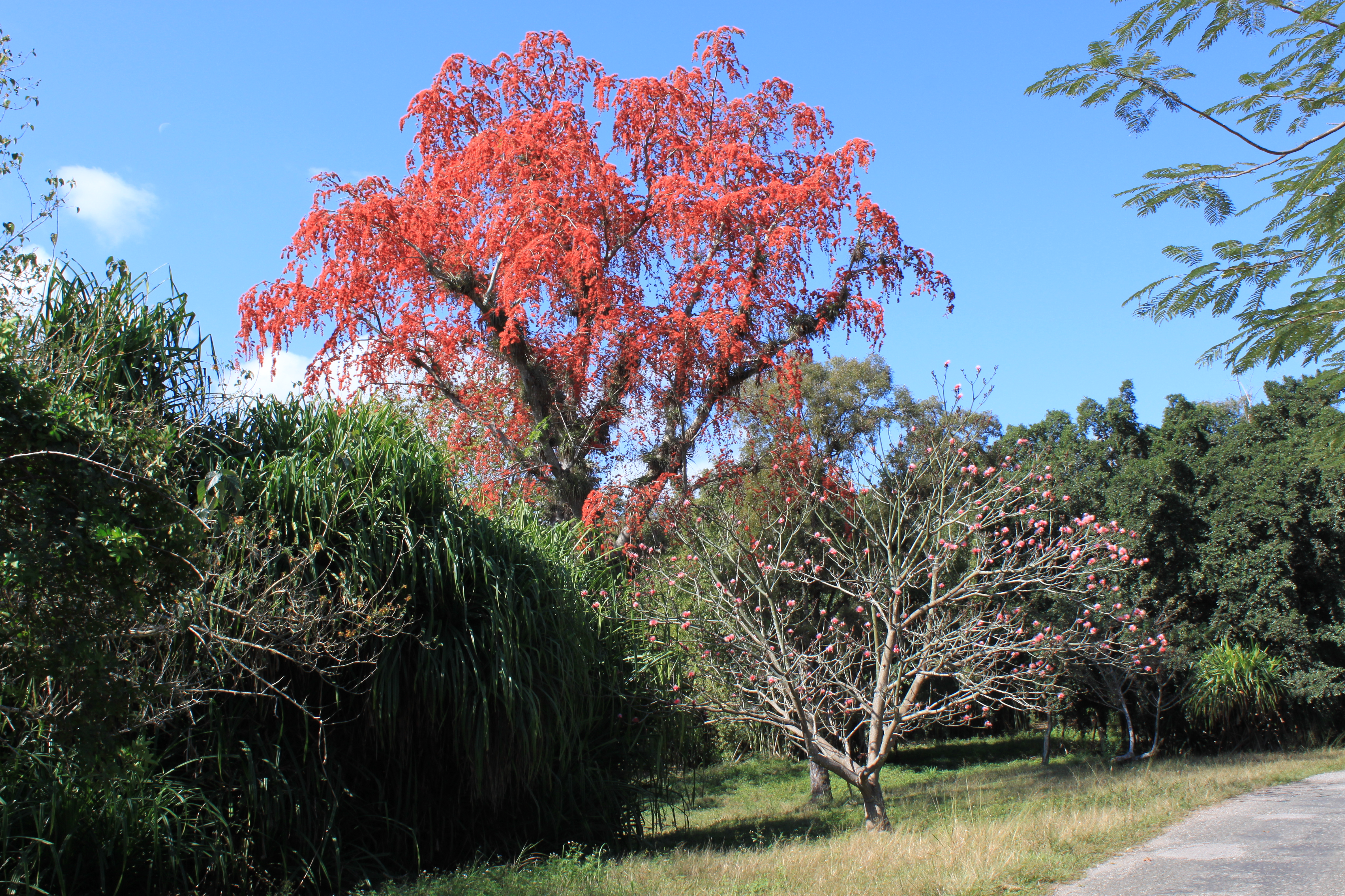 Botanic Garden of Cienfuegos, Cuba